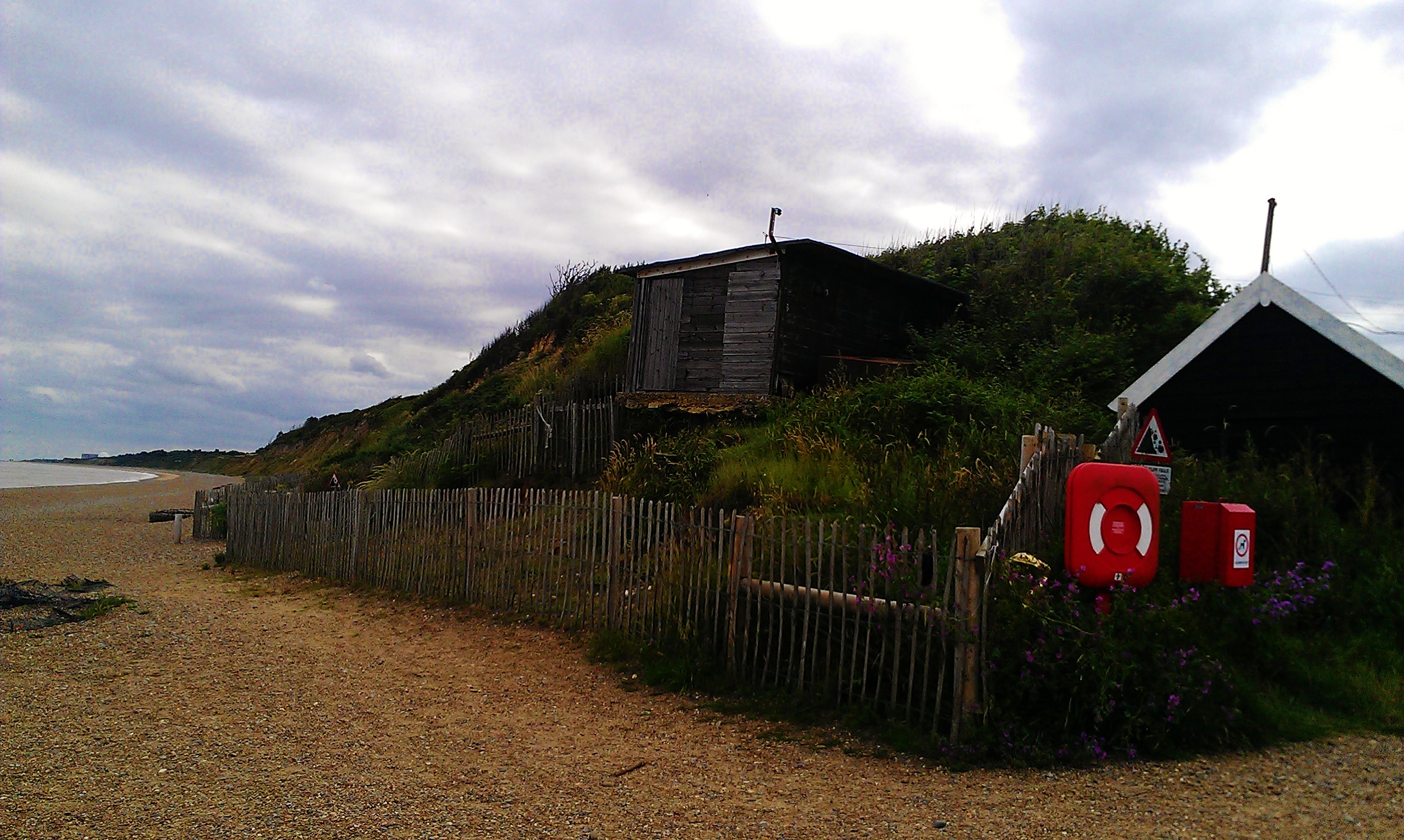 The beach at Dunwich in Suffolk. Summer 2012.